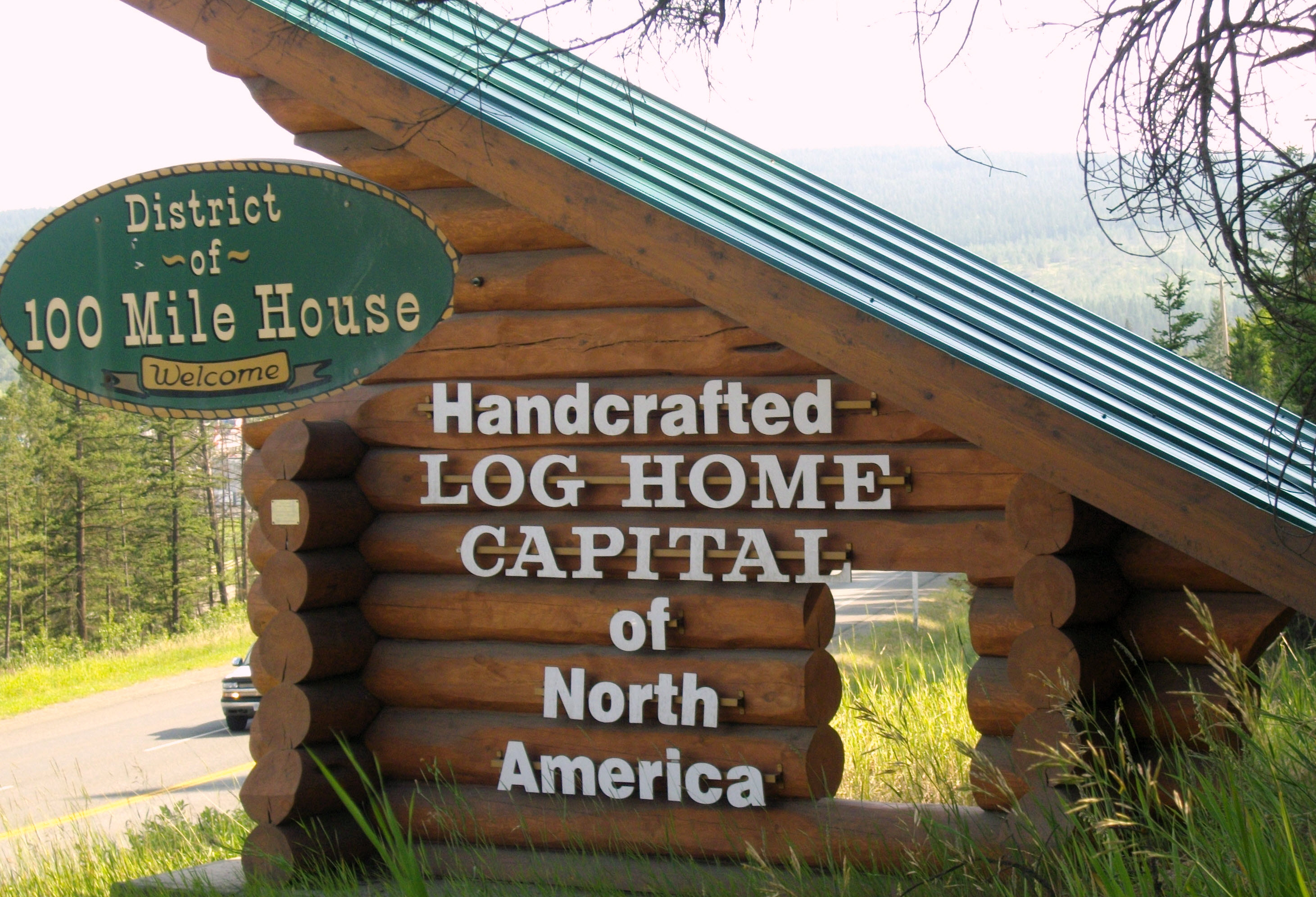 Welcome sign,100 Mile House is a district municipality located in the South Cariboo region of central British Columbia, Canada. [1]